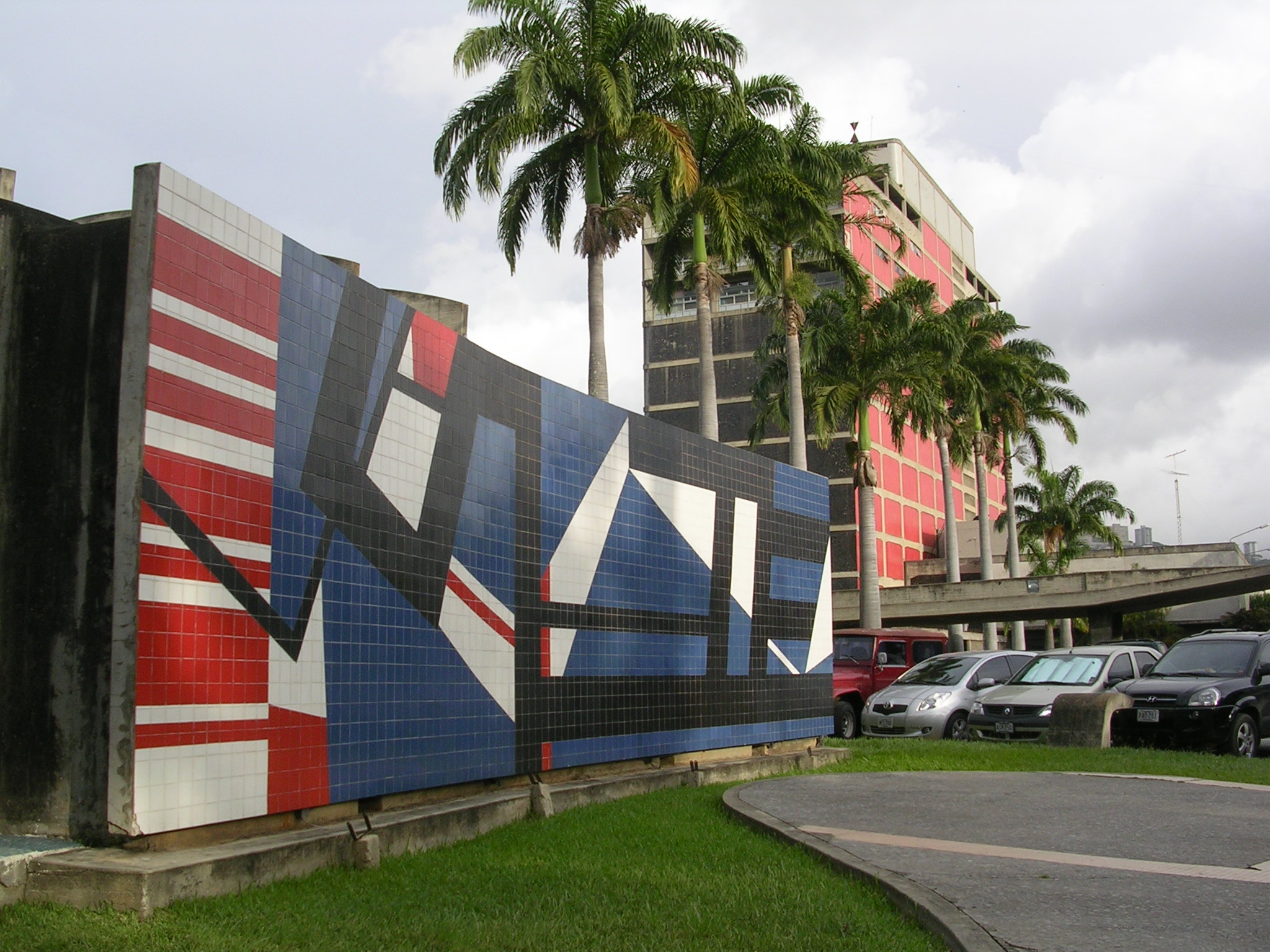 Mural by Mateo Manaure, Main Library, Central University of Venezuela